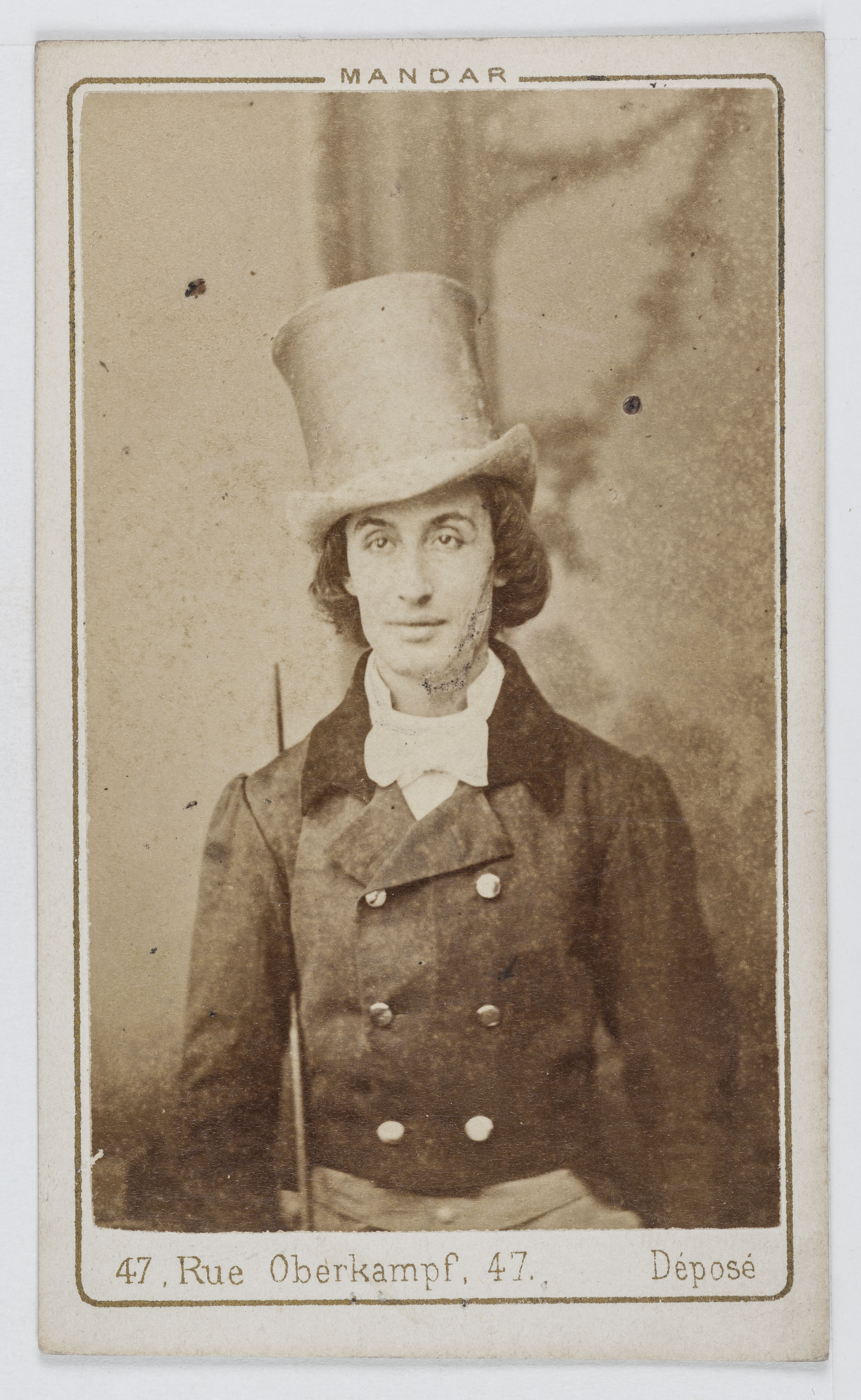 Mandar (Monsieur). Portrait de Tayau, violoniste et acteur de théâtre entre 1856 et 1863. Carte de visite (recto). Tirage sur papier albuminé, 1860-1890. Paris, musée Carnavalet.